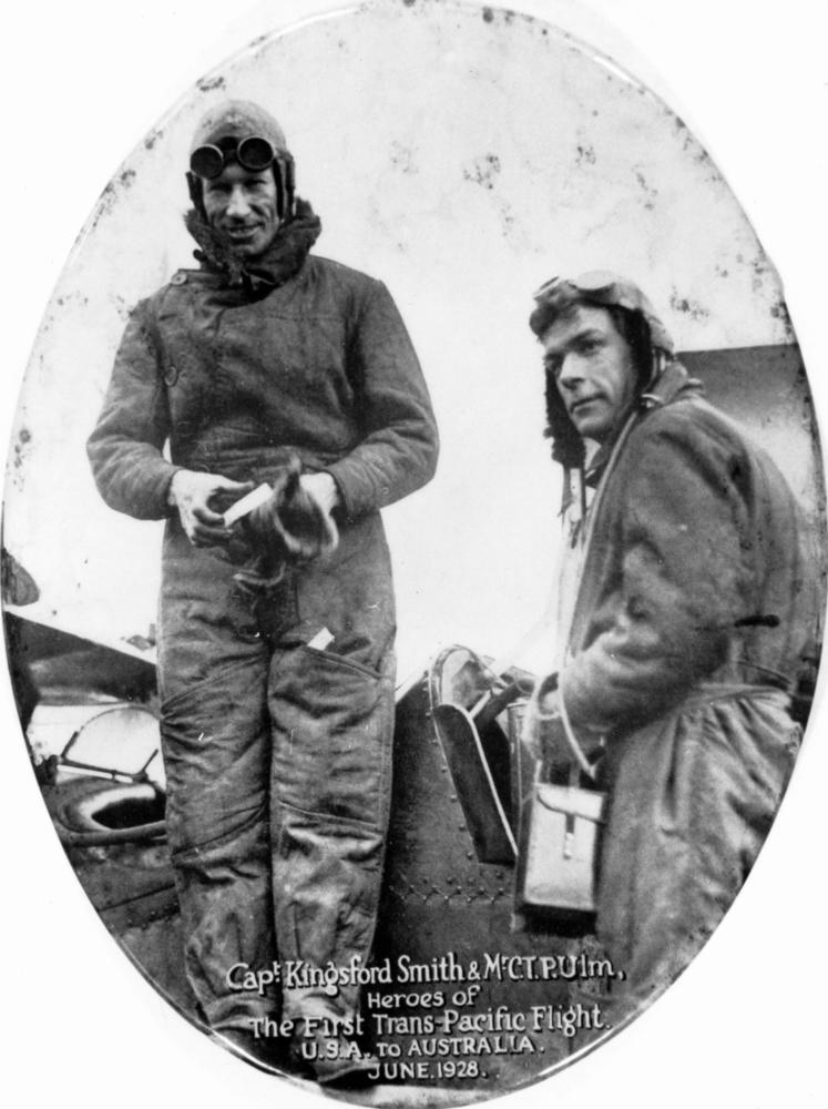 Captain Kingsford Smith & Mr C. T. P. Ulm. Aviators Kingsford Smith and Ulm were pilots on the first Trans- Pacific flight between U.S.A and Australia June 1928. (Description supplied with photograph.) Kingsford Smith is standing on the wing ot the Southern Cross dressed in a flying suit.